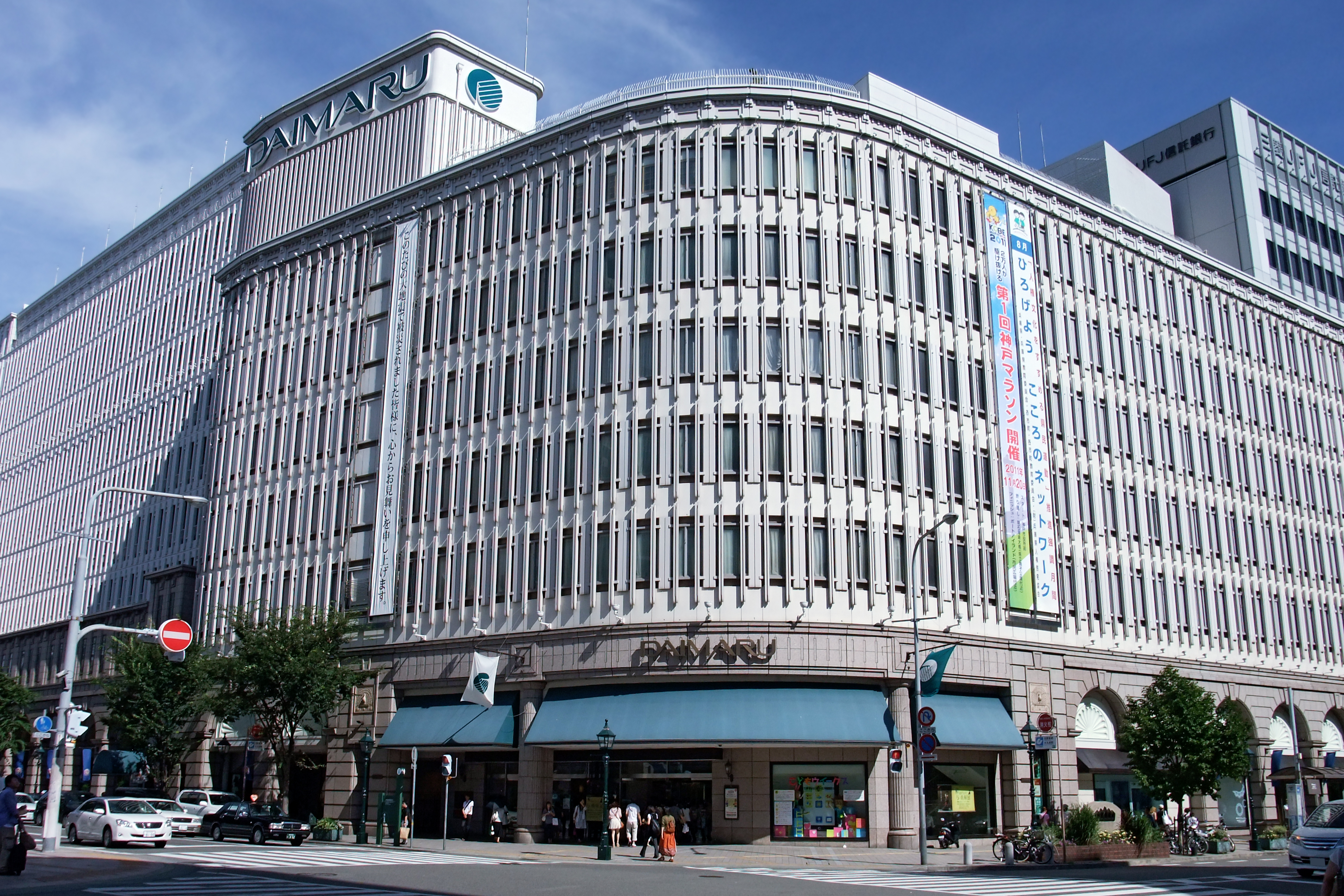 Kobe Daimaru Building in Kobe, Hyogo prefecture, Japan